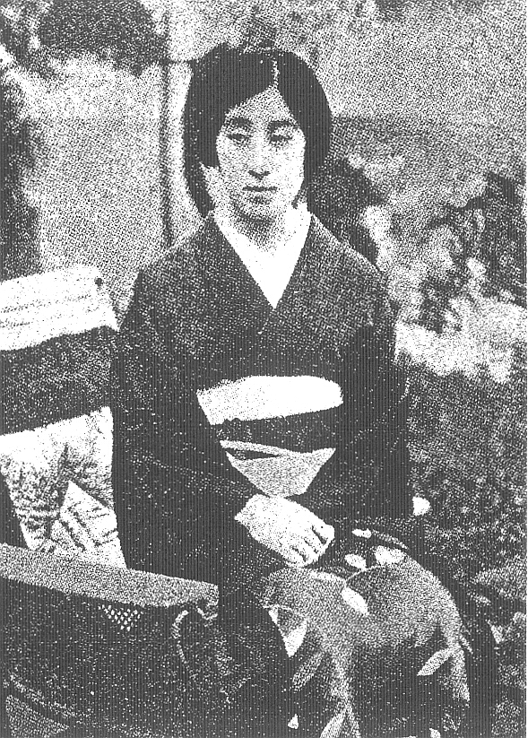 Takeko Kujo (1887 - 1928) was a Japanese Poetess.